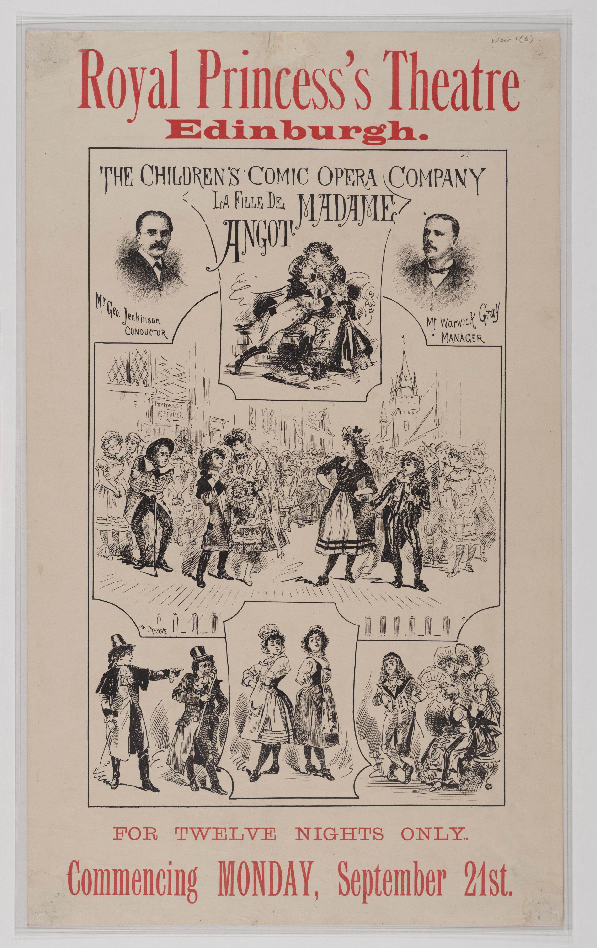 The Children's Comic Opera Company. 'La Fille de Madame Angot'. Mr Geo. Jenkinson Conductor. Mr Warwick Gray Manager. For twelve nights only. Commencing Monday, September 21st.